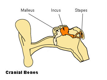 Auditory ossicles: Malleus, incus and stapes.